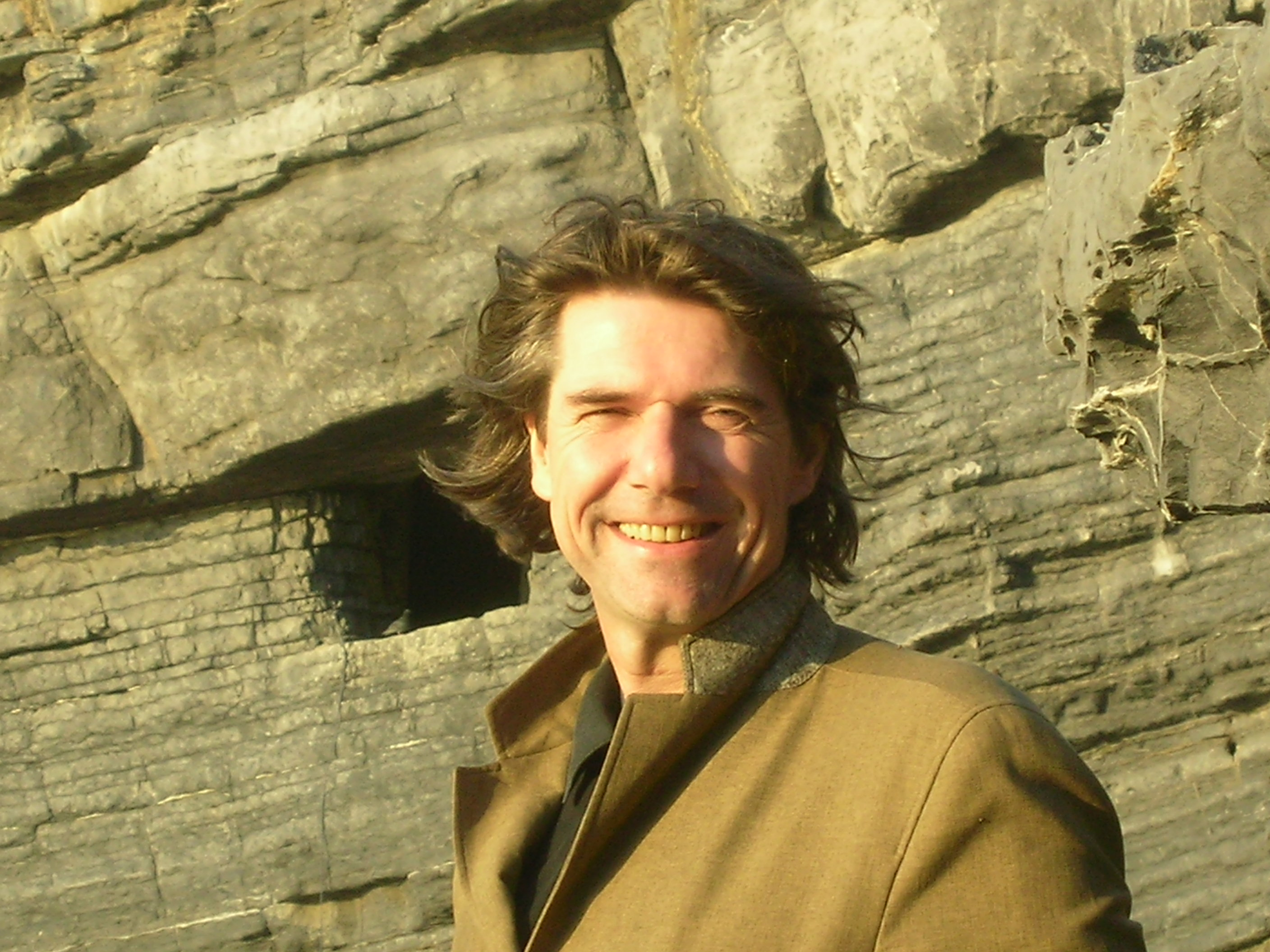 Potret of Dutch architect Wilfried van Winden